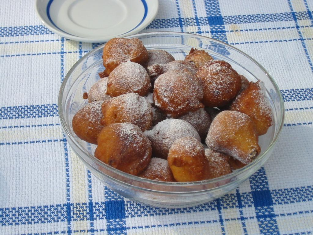 Fritule, istrian dessert food photo:Ziga 10:36, 16 April 2007 (UTC)